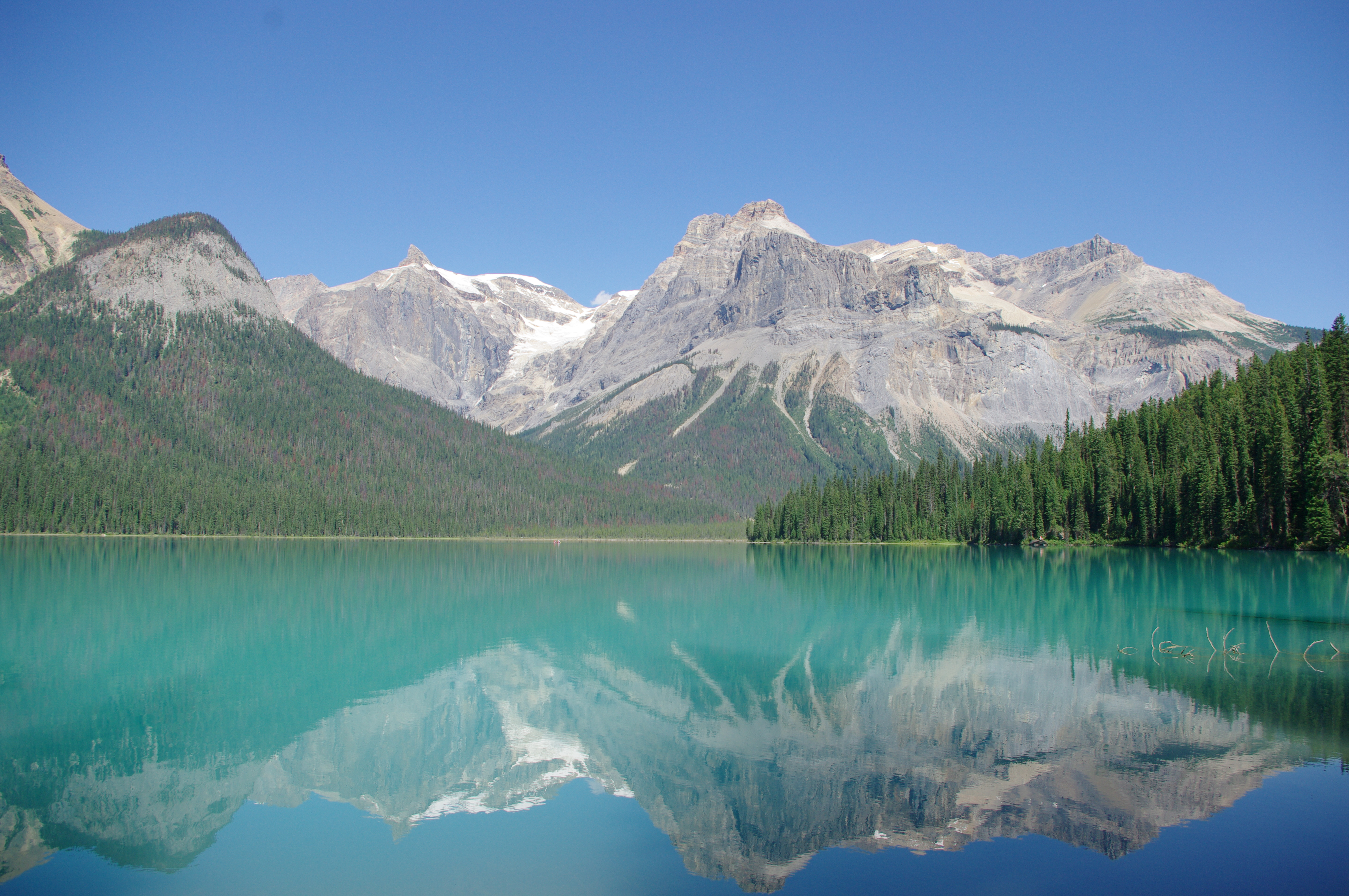 Emerald Lake in Yoho National Park, British Columbia, Canada